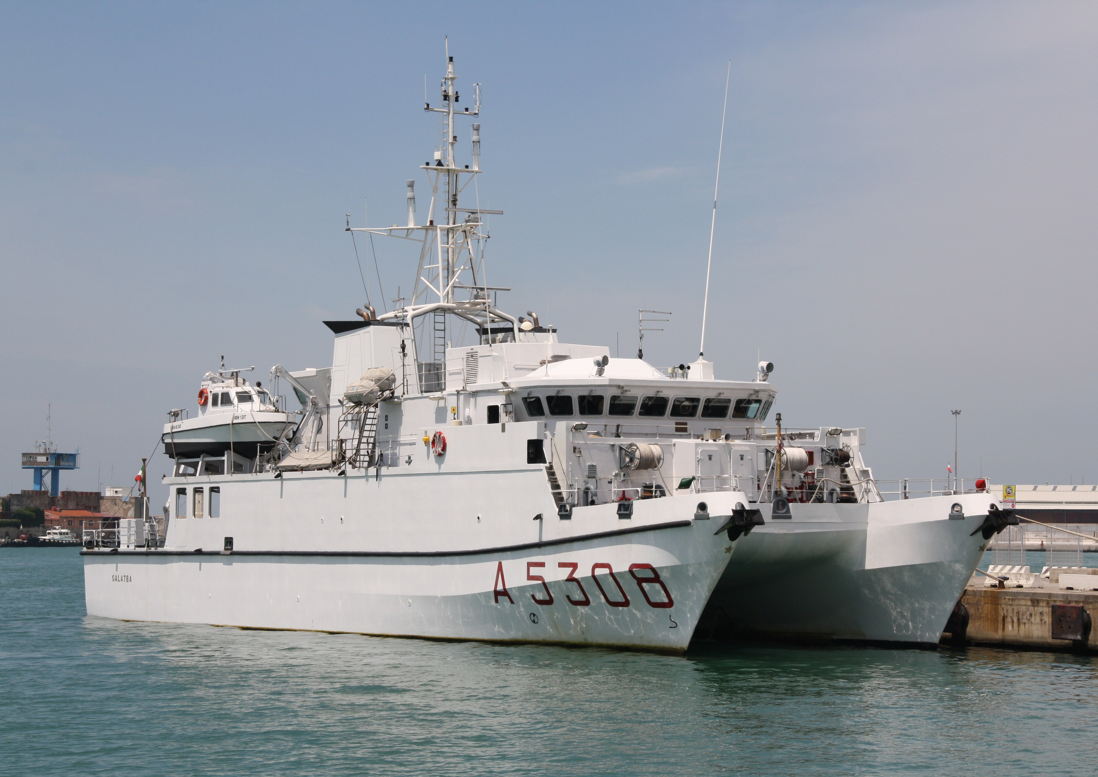 Italy, Marina Militare. The Ninfe-class coastal hydrographic vessel Galatea (A 5308) built by Intermarine has been launched on June 7, 2000 and was delivered on January 10, 2002 along with the sister unit Aretusa (A 5304). The ship is a catamaran built in Fibre-reinforced plastic designed to perform oceanographic activities as: sea depth research, detection of sunk hulls, topography and geodesy of harbor and coast, sea currents and water data. Here is berthed in the Port of Livorno at “Andana degli Anelli” wharf of “Porto Mediceo”.